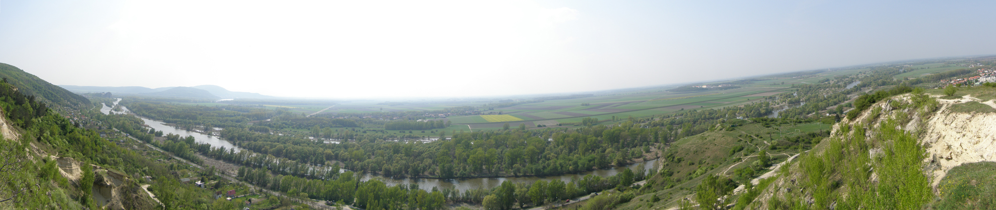 wiev from Sandberg.